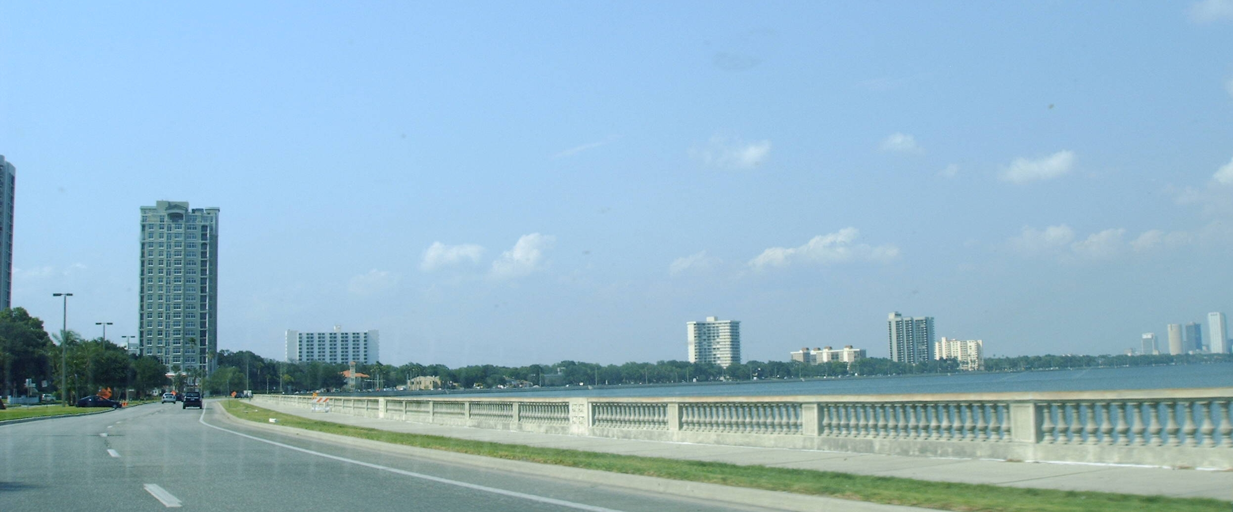 This image of the bayshore greenway, a linear park, was taken by me on 05/10/2006. It is merely representative ... many such exist.